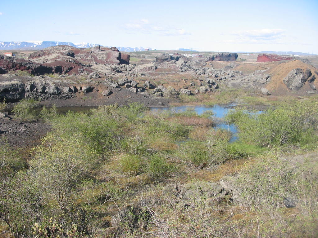 Rauðhólar (icelandic Red hills) - remnants of a cluster of pseudocraters in Elliðaárhraun lava fields on the south-eastern outskirts of Reykjavík, Iceland. The age of Rauðhólar is about 4600 years. Originally there were over 80 craters but the gravel from them was taken and used in constructions. Most of the material was taken around World War II for constructions such as Reykjavík airport and road building.